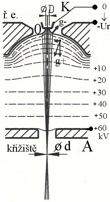 Electron beam generation